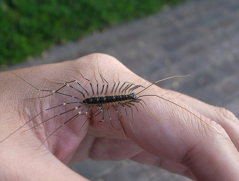 House centipede, Thereuonema tuberculata (Wood, 1863)